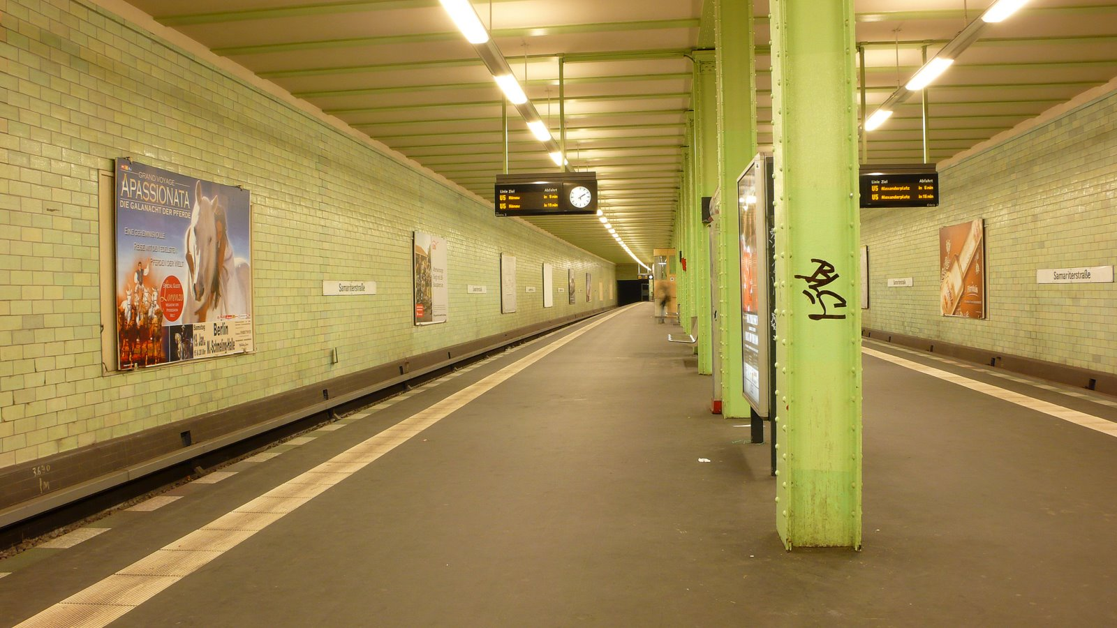 Samariterstr subway